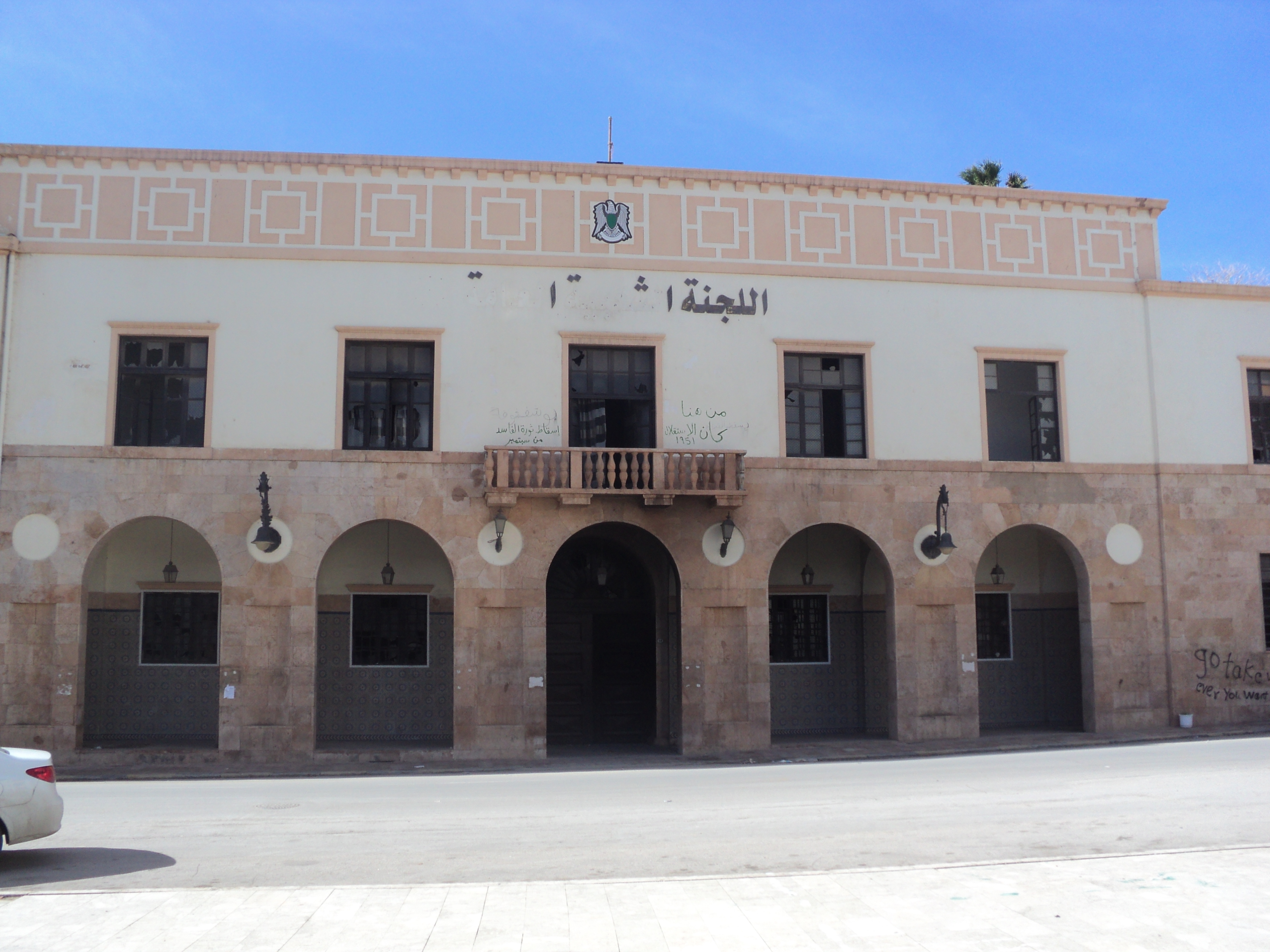 The General People's Committee of Libya Benghazi building, after 2011 Libyan protests fire.